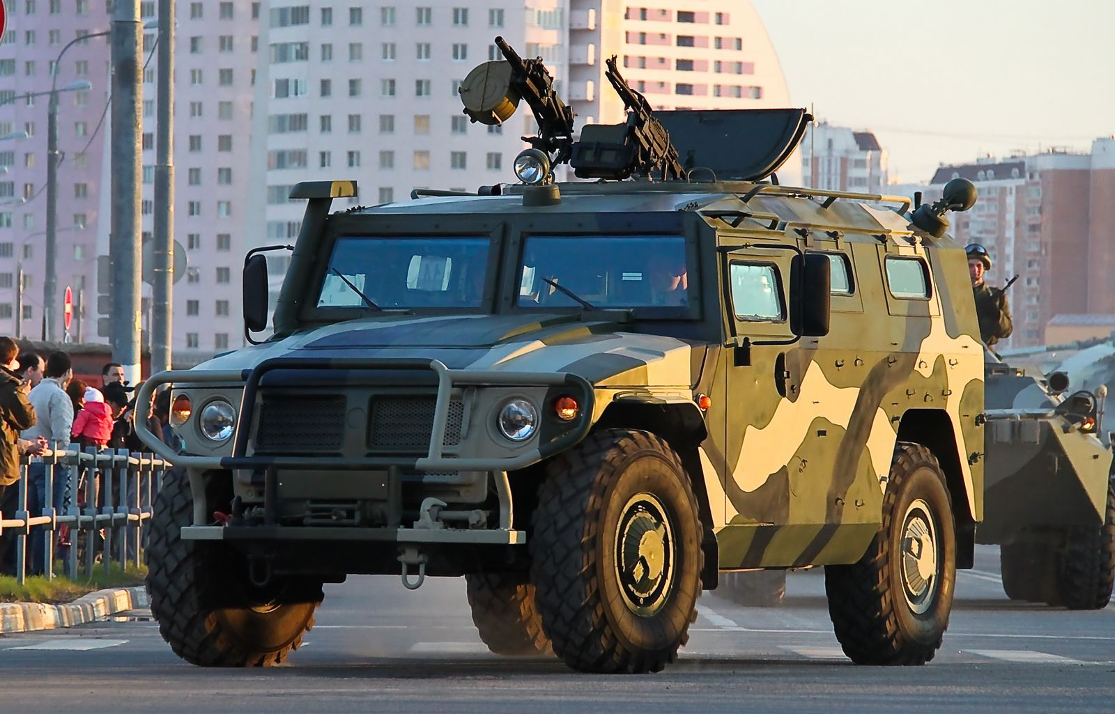 A Russian GAZ-2975 high-mobility multipurpose military vehicle.